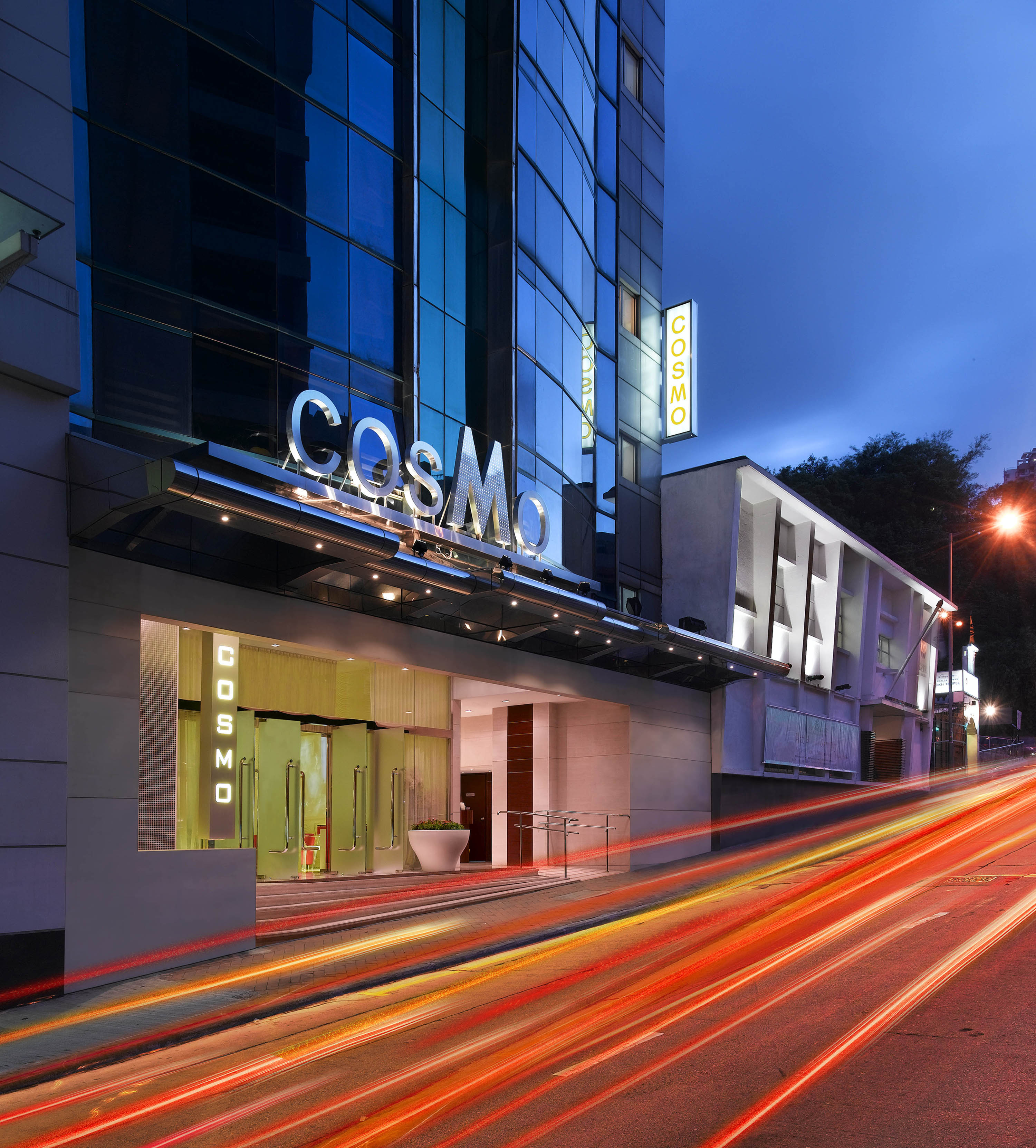 Cosmo Hotel Hong Kong Exterior Photo